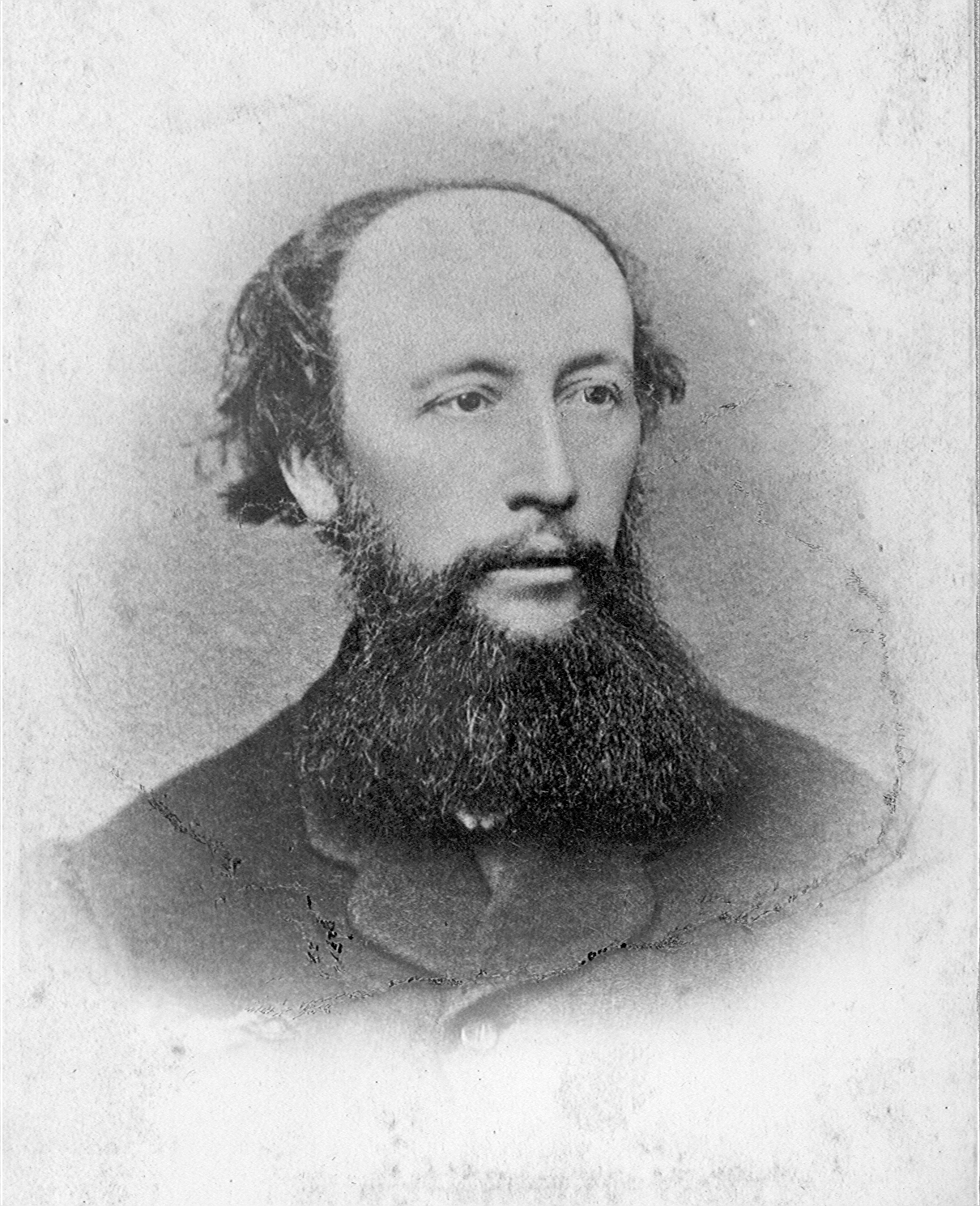 Photograph of Augustus Dickens (1827-1866)